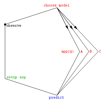 The observation cycle, including model-selection, by which our idea-codes adapt to the world around. This likely starts with observation (the top left vertex), but may circle the loop clockwise many times as the ideas by which we model and predict outcomes are refined (when that is possible) over time. Note that the two vertices on the left hand side primarily involve interaction with the world around (i.e. the way things are), while the three vertices on the right hand side primarily involve our ways to conceptualize that world (i.e. our scheme of things).